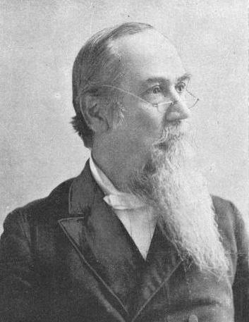 The Reverend James Park (1822–1912), pastor of the First Presbyterian Church in Knoxville, and former owner of the NRHP-listed James Park House.